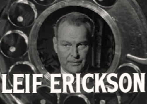 Leif Erickson in I Saw What You Did (1965) - trailer (cropped screenshot)